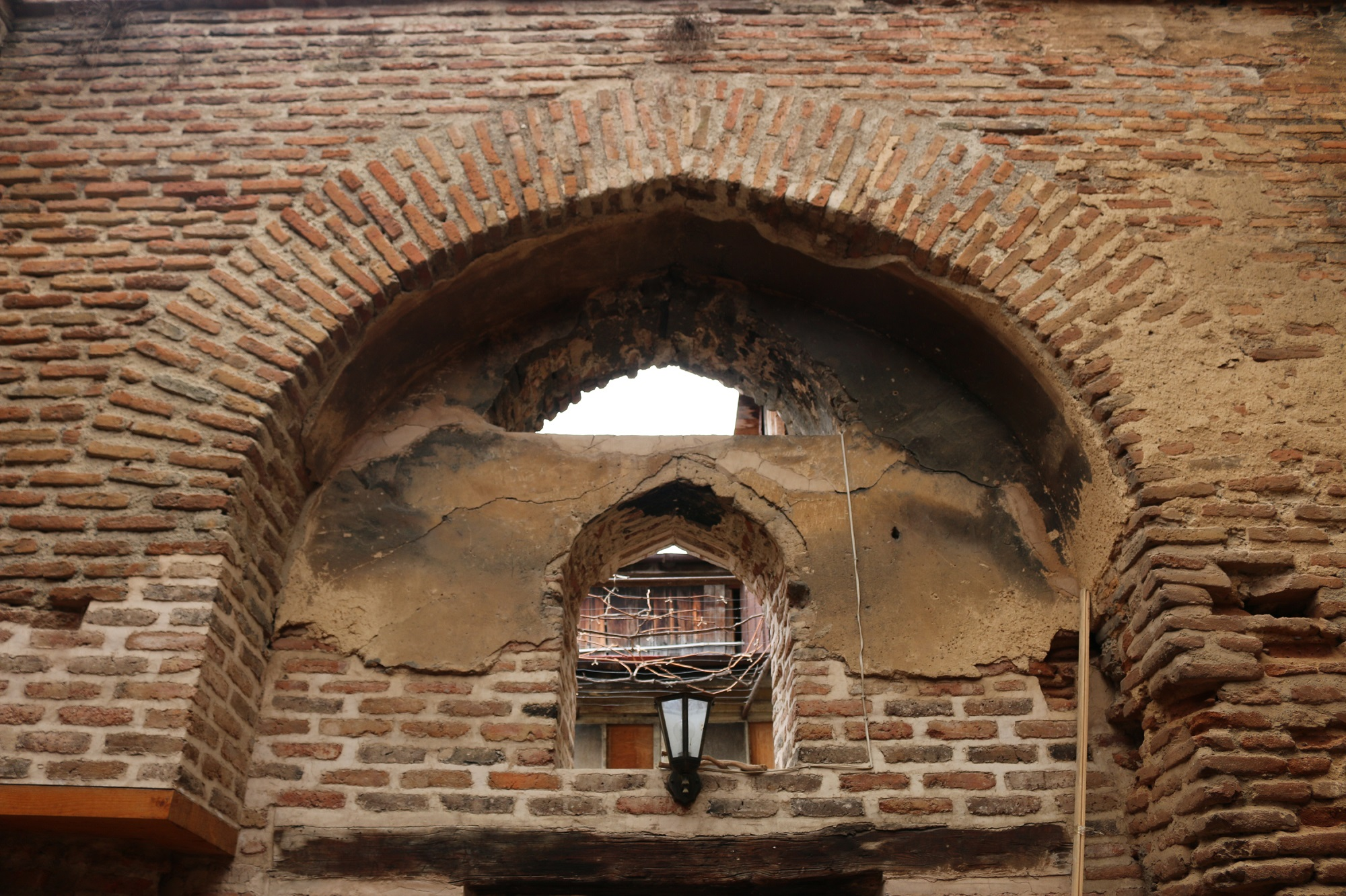 Atashgah / Ateshgah is an ancient Persian fire temple in Tbilisi. It was built in Sasanian era, when Georgia was part of Persia. Photo: Persian Dutch Network